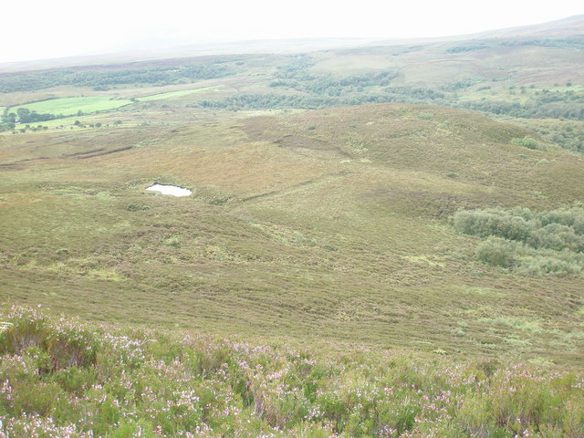 Mountainside at Florencecourt View of the mountainside between Benaughlin and Trien